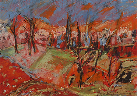 נוף כתום